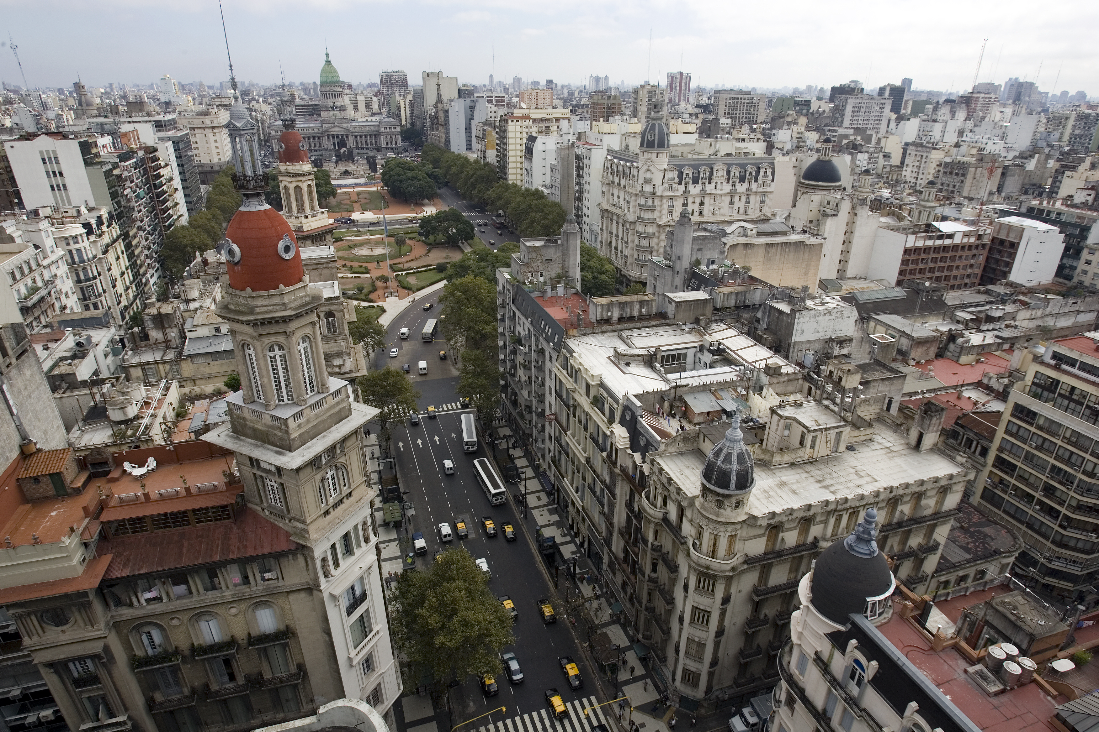 Avenida de Mayo the Congress and La Inmobiliaria from atop Buenos Aires, Argentina